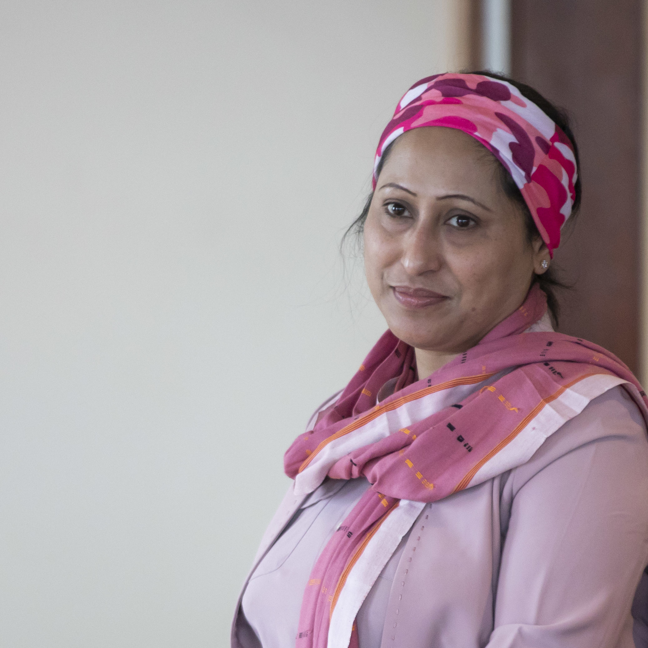 Razia Sultana - lawyer at the Elliott School of International Affairs and the Gender Equality Initiative in International Affairs at George Washington University hosted a panel featuring three International Women of Courage (IWOC) honorees and Ambassador Reuben Brigety, Dean of the Elliott School. The IWOC award recognizes women around the globe who have demonstrated exceptional courage and leadership in advocating for peace, justice, human rights, gender equality, and women’s empowerment, often at great personal risk and sacrifice.